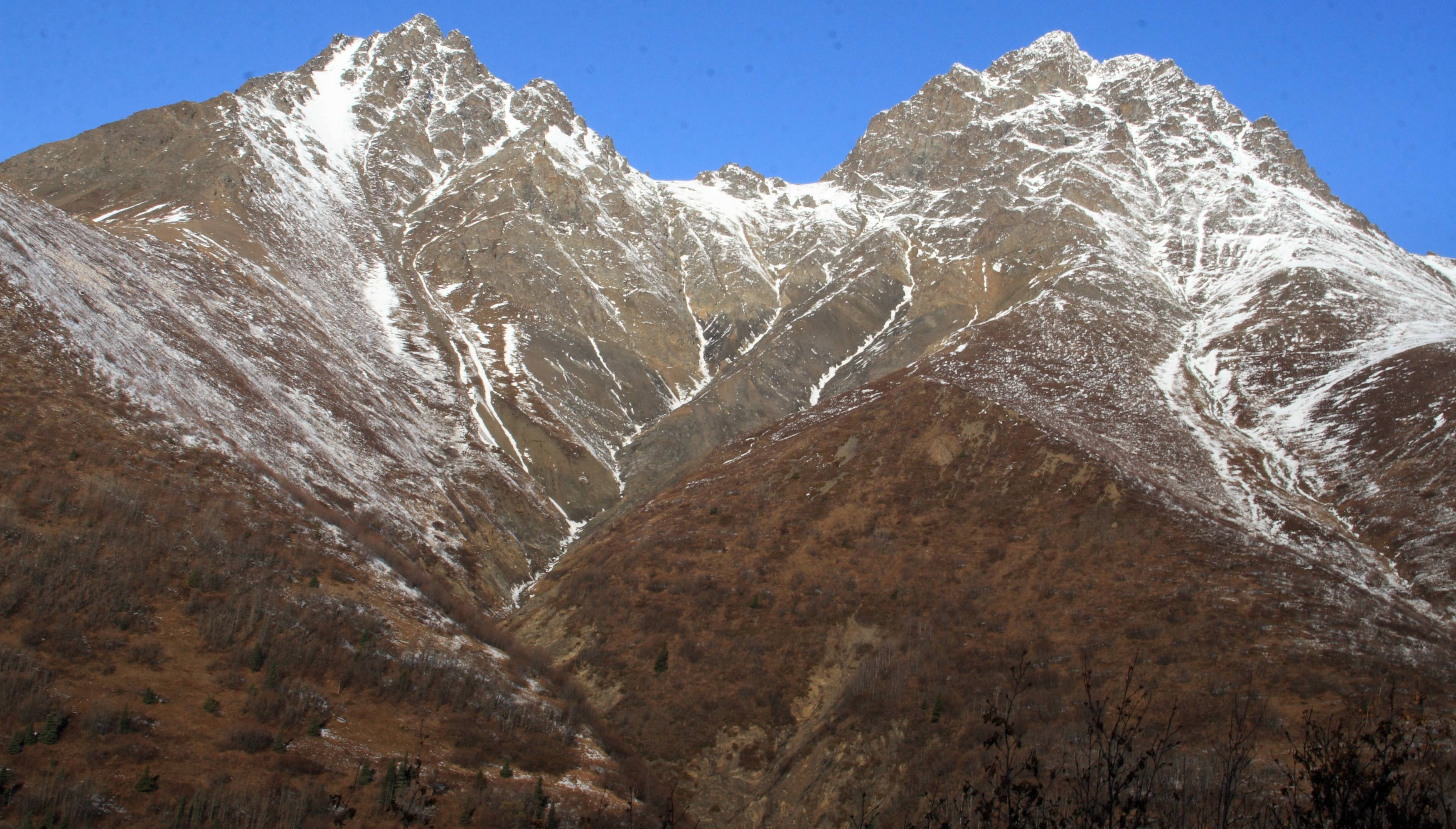 These photos are from a hike I took with several people in October 2008. Twin Peaks is a fairly short but steep trail starting at Eklutna Lake. We made it to the second bench before turning back as the snow was too deep - and it was freezing up there!